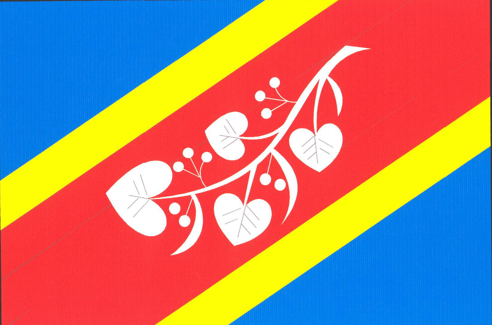 Municipal flag of Lipov village, Hodonín District, Czech Republic.